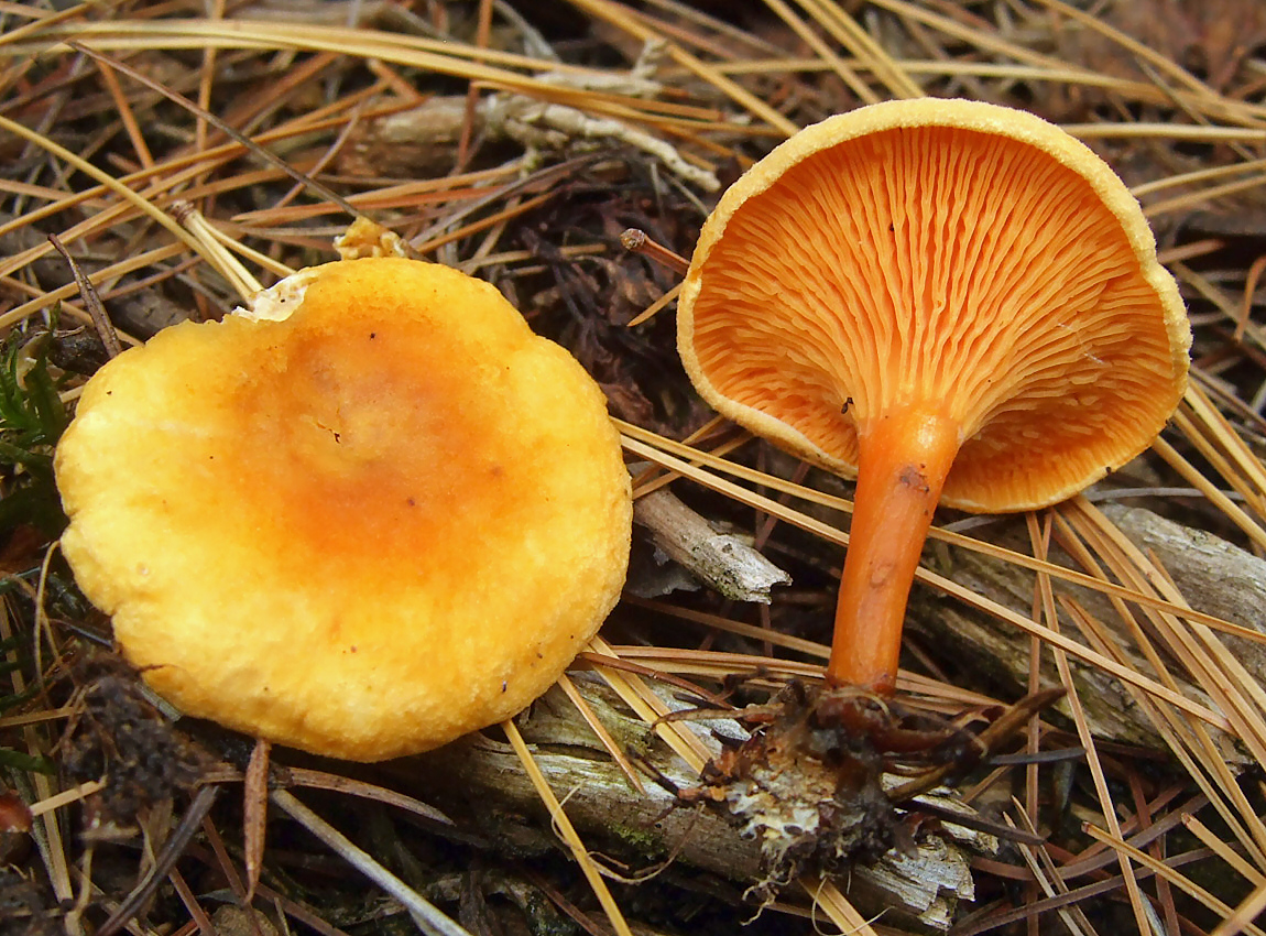 hygrophoropsis aurantiaca